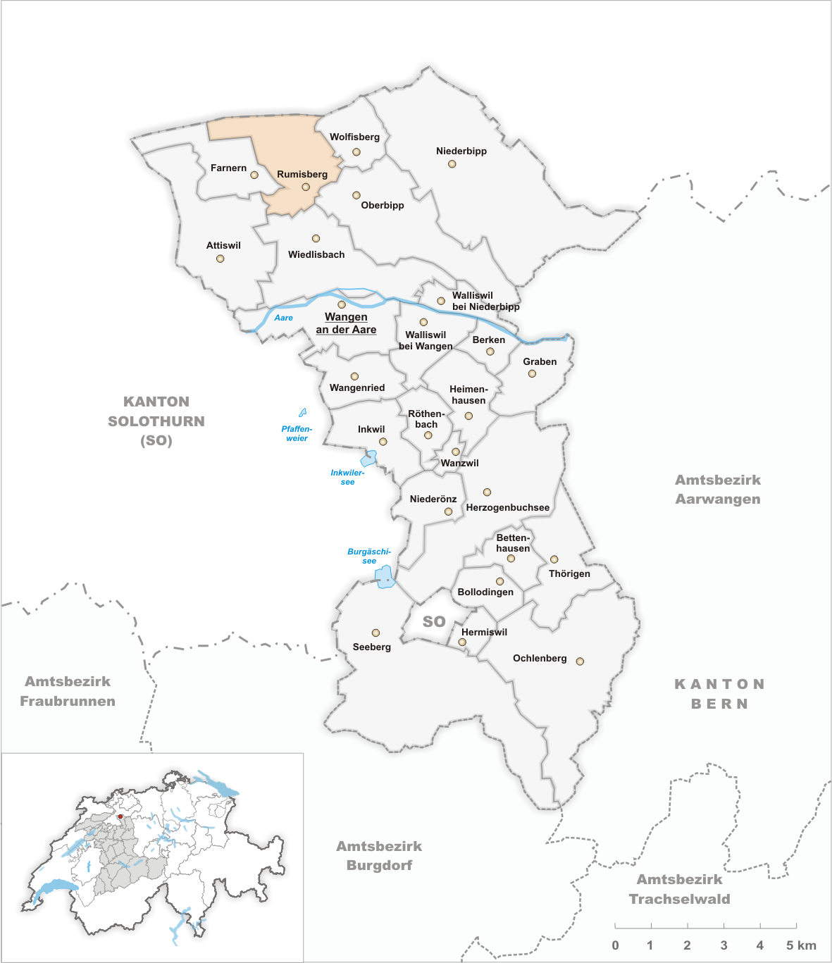 Municipality Rumisberg